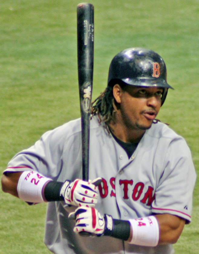 Photograph taken by Googie Man 16:02, 22 December 2006 . . Googie man . . 658×840 (469 KB)